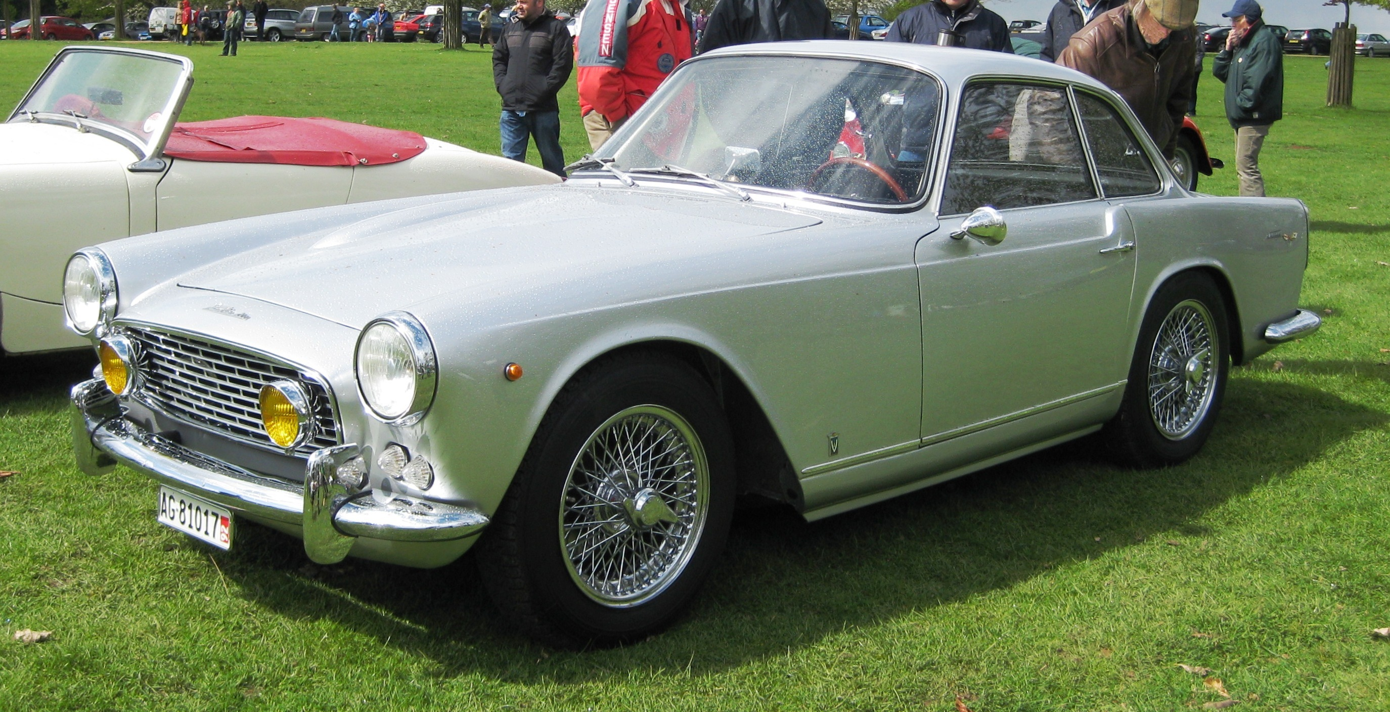 Triumph TR3, built ca. 1961, based Triumph Italia with (temporary) Aargau license plate